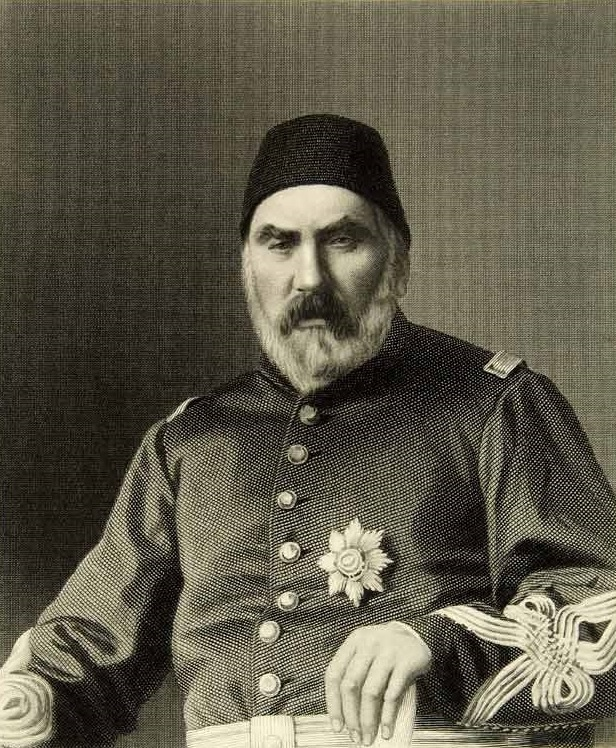 Abdülkerim Nadir Pasha